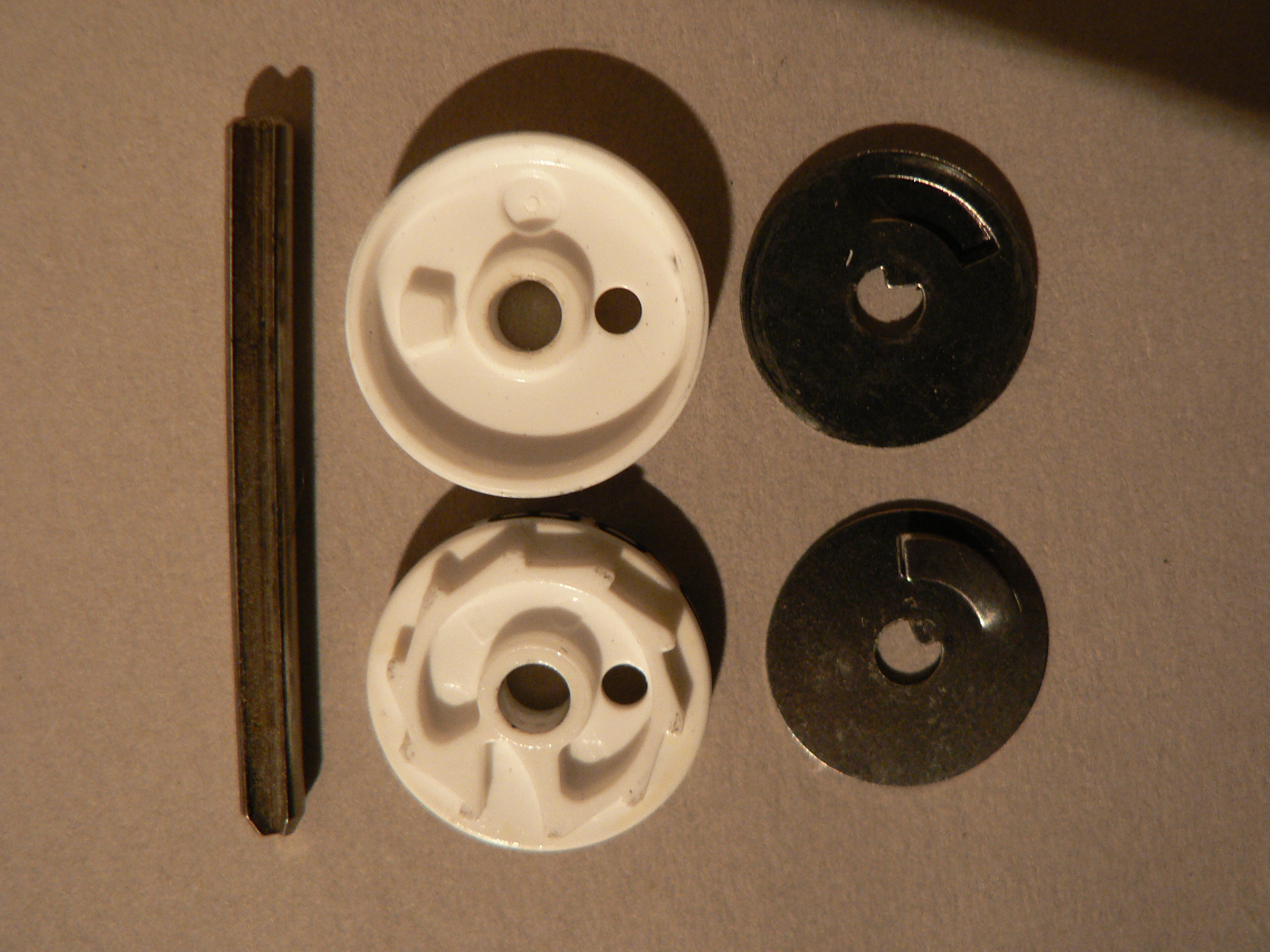 parts of a mechanical counter device